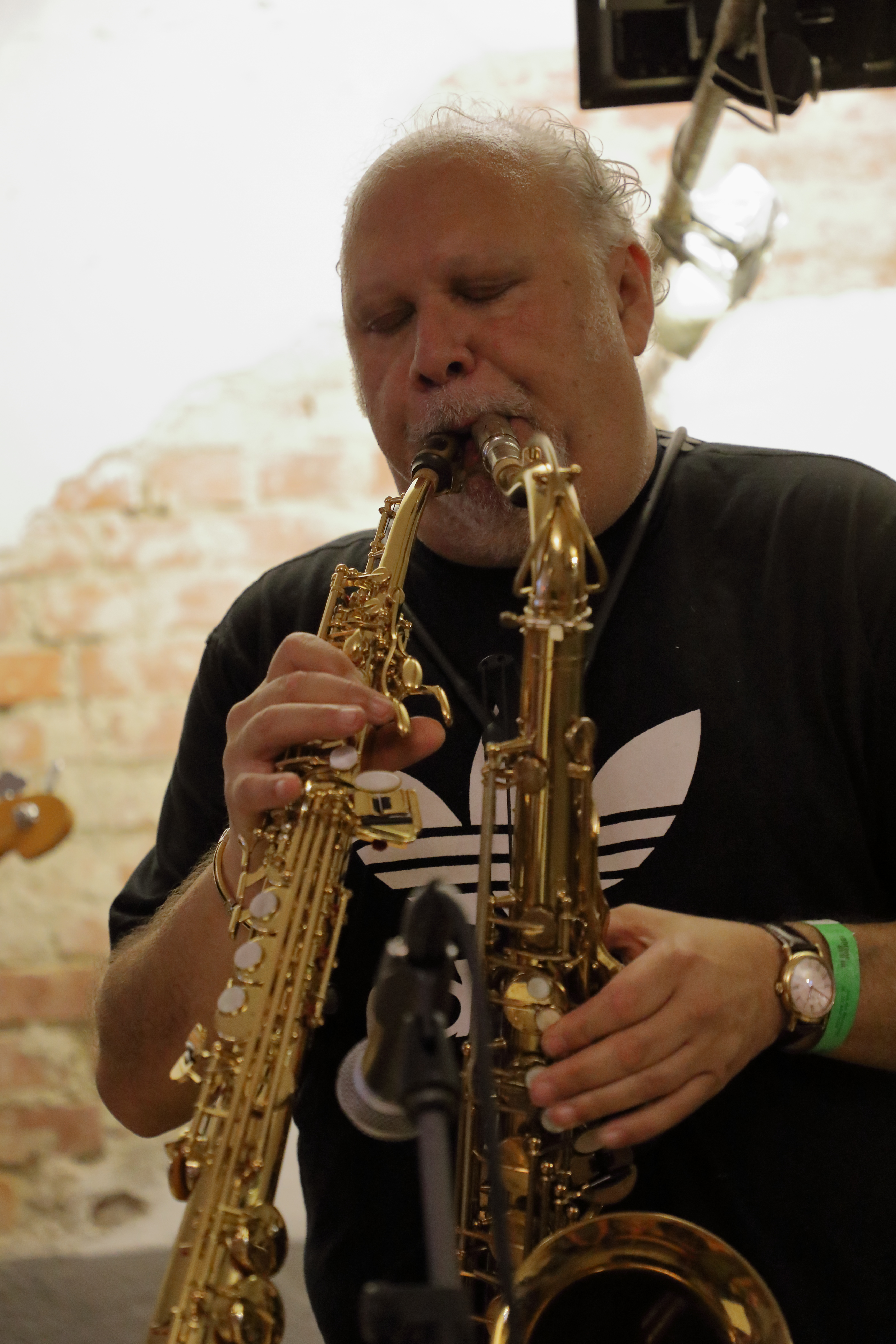 Web Web are Roberto Di Gioia (piano, synth, perc), Tony Lakatos (tenor sax, soprano sax), Christian von Kaphengst (db) & Peter Gall (dr). Here´s the concert at INNtöne Jazzfestival 2019 in the former hog house, now called St. Pig´s Pub.